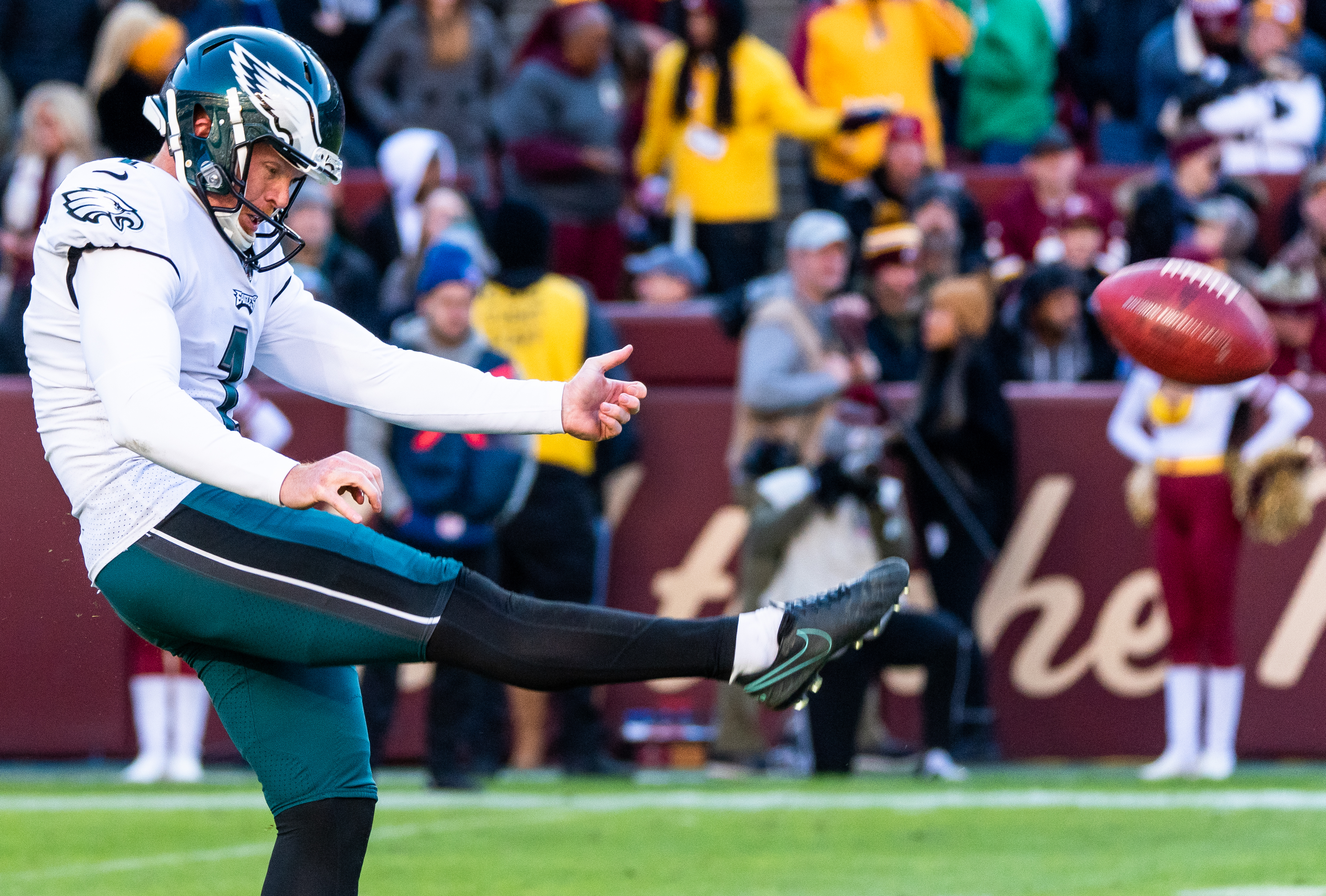 In 2019